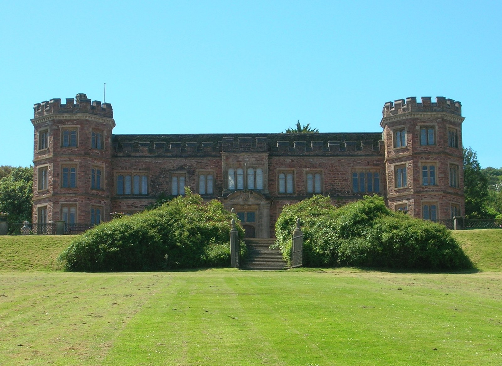 Mount Edgcumbe House, near to Cremyll, Cornwall, Great Britain. Across the water from the historic city of Plymouth lies the great Cornish House of Mount Edgcumbe. The house was built between 1547 and 1553 for the renowned Edgcumbe family of Cotehele and became the home of the Earls of Mount Edgcumbe.